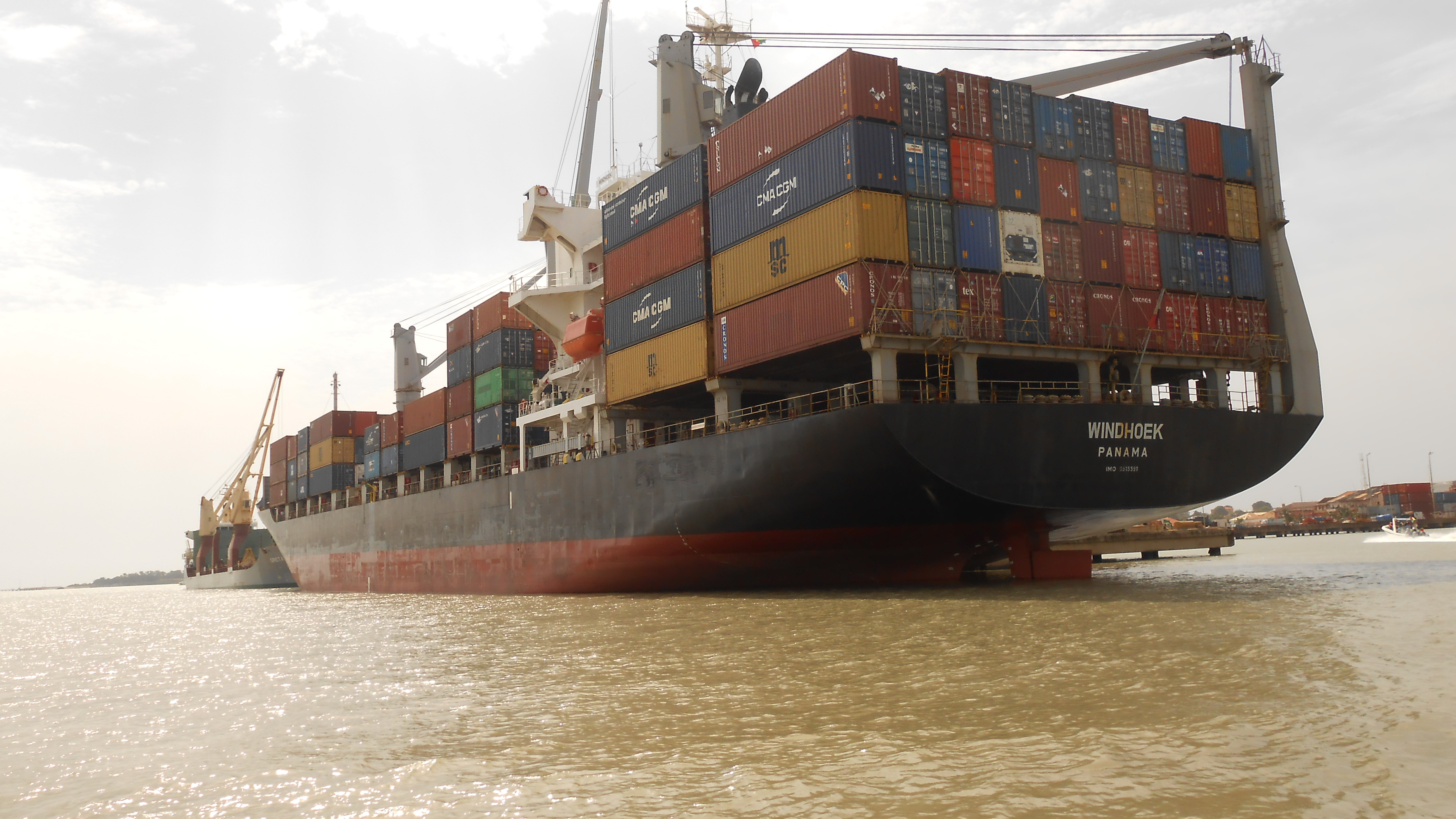 Container ship in the port of Bissau as seen in 2017, november the 9th.